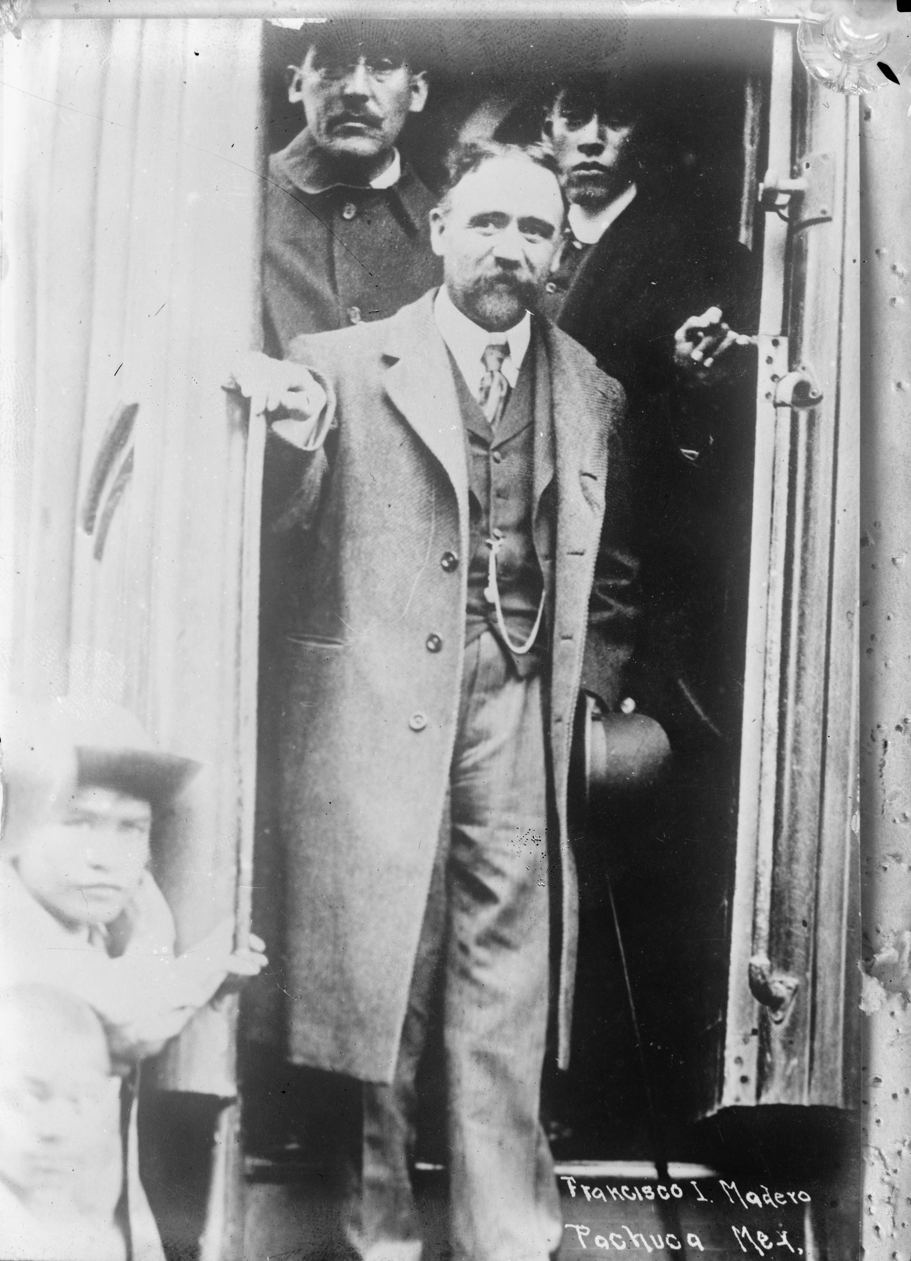 Francisco I. Madero, former Mexican president, arriving to Pachuca by train.